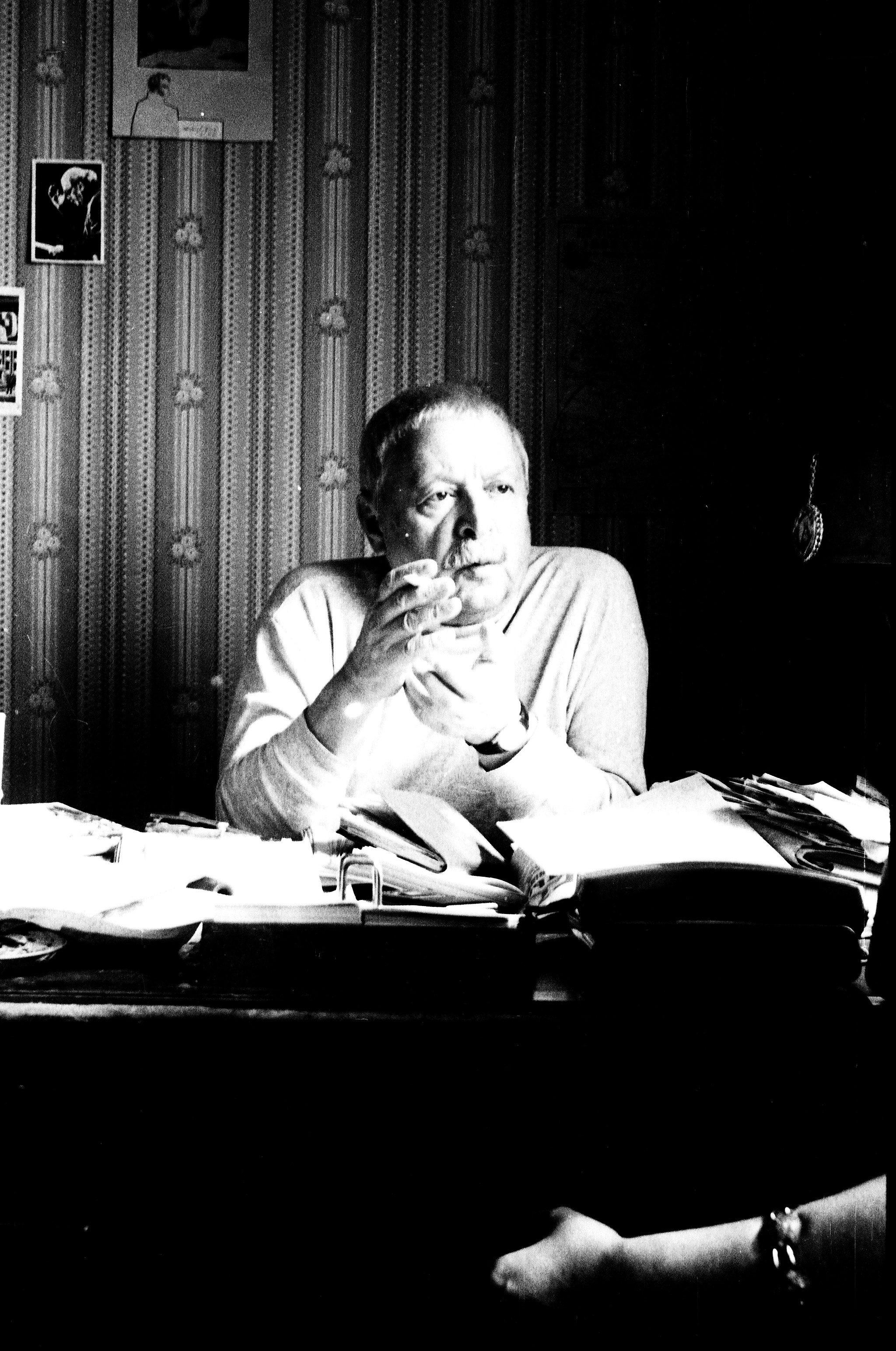 Visiting Levitanskogo Yury Davidovich. April 1995. Moscow.